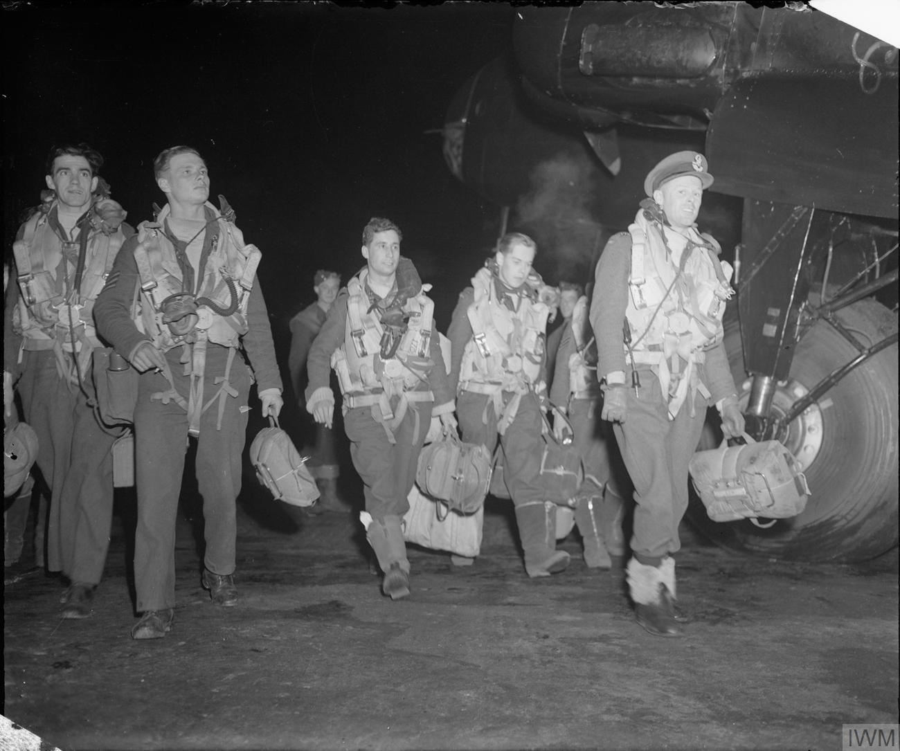 Royal Air Force Bomber Command, 1942-1945. Flight Lieutenant A Carey, Captain of Handley Page Halifax Mark II, 'B for Beer', of No. 102 Squadron RAF, leads his crew to the interrogation room at Pocklington, Yorkshire on their return from a night raid on Frankfurt-am-Main, Germany. The raid of 4/5 October 1943 was the first serious attack on Frankfurt, causing widespread destruction in the eastern half of the city and in the docks on the River Main.